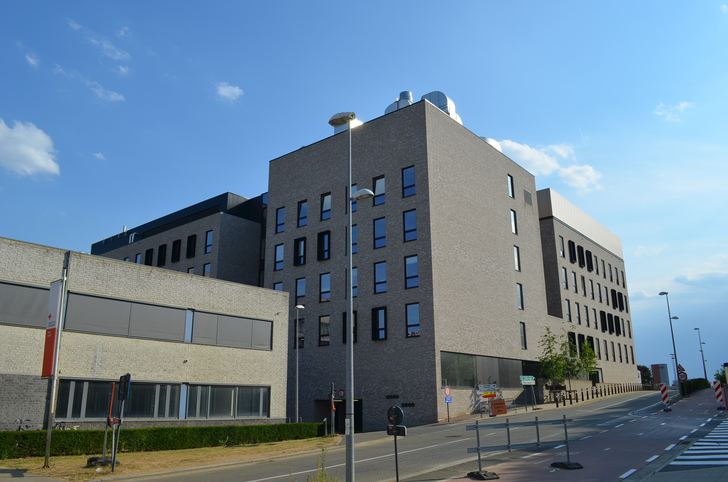 Rega Institute for Medical Research